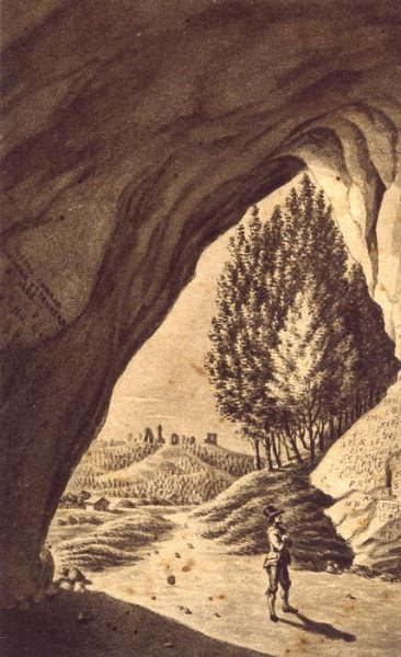 A drawing by Karl fon Ungern-Steinberg of the Gutmanis cave in Latvia. The date 1667 engraved in the wall.